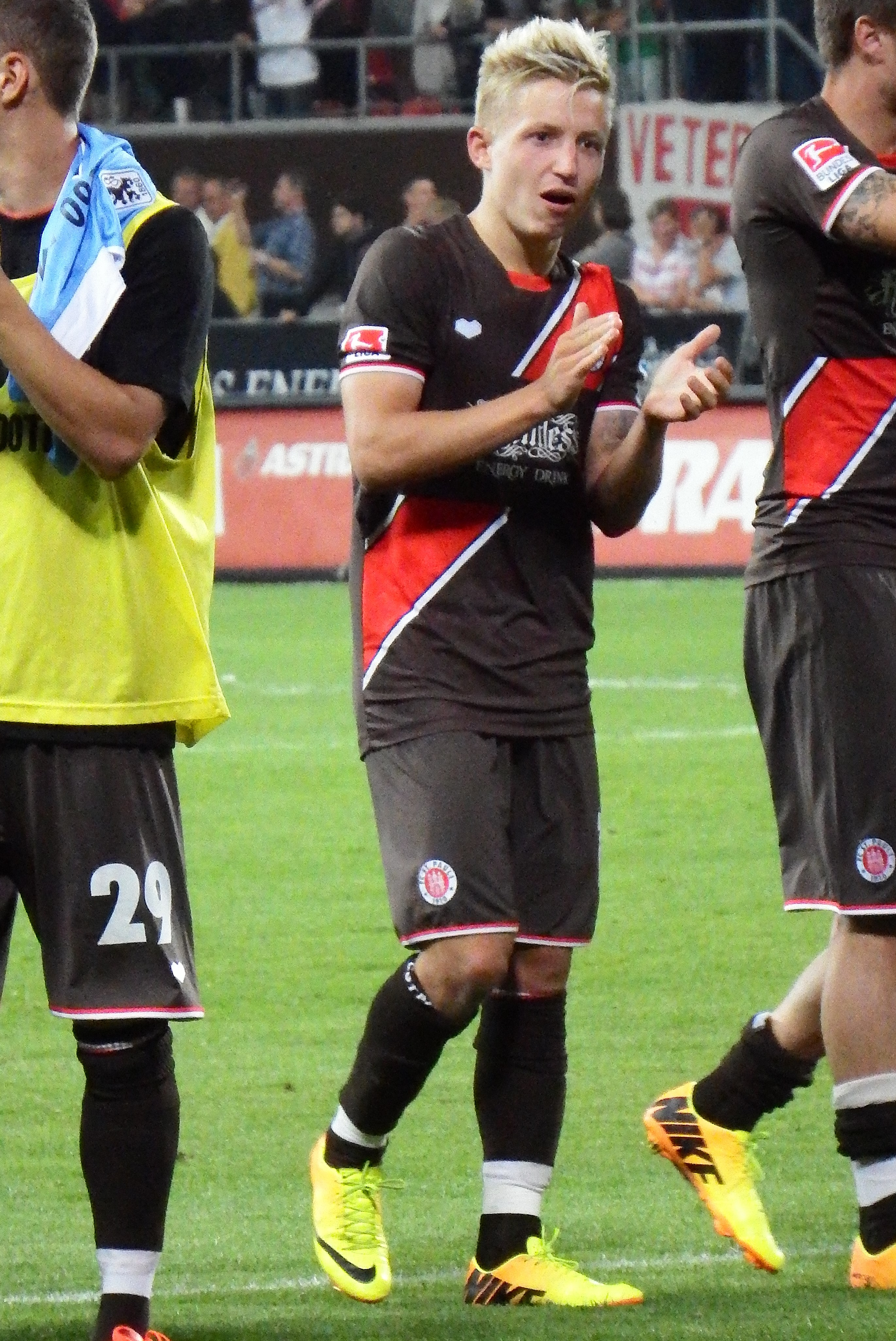 Marc Rzatkowski as Player of FC St. Pauli